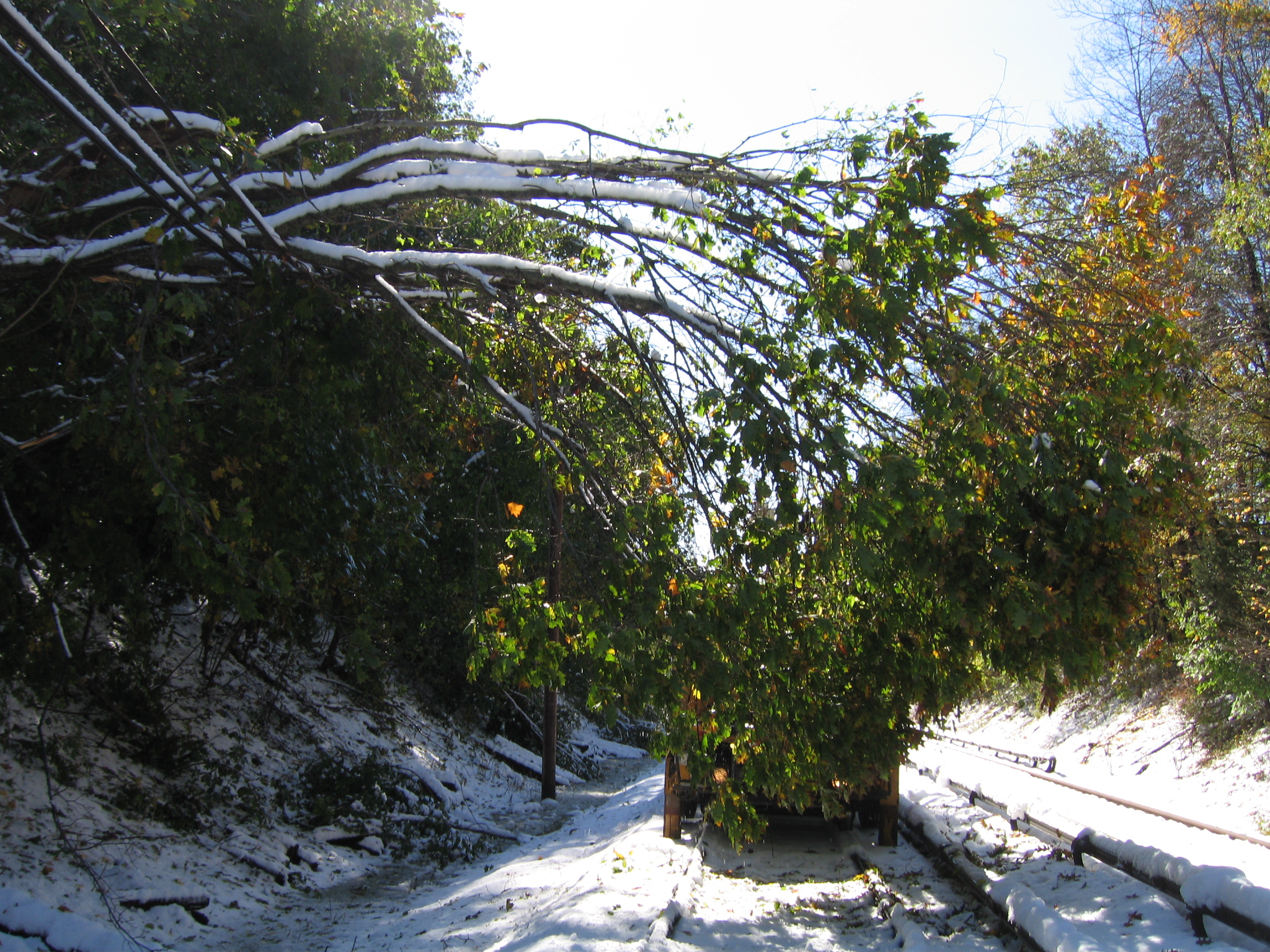 Crews from Metro-North Railroad worked round the clock on the weekend of Oct. 29-30 to restore service as quickly as possible after a powerful nor'easter brought down many trees and power lines. Photo by Metropolitan Transportation Authority.